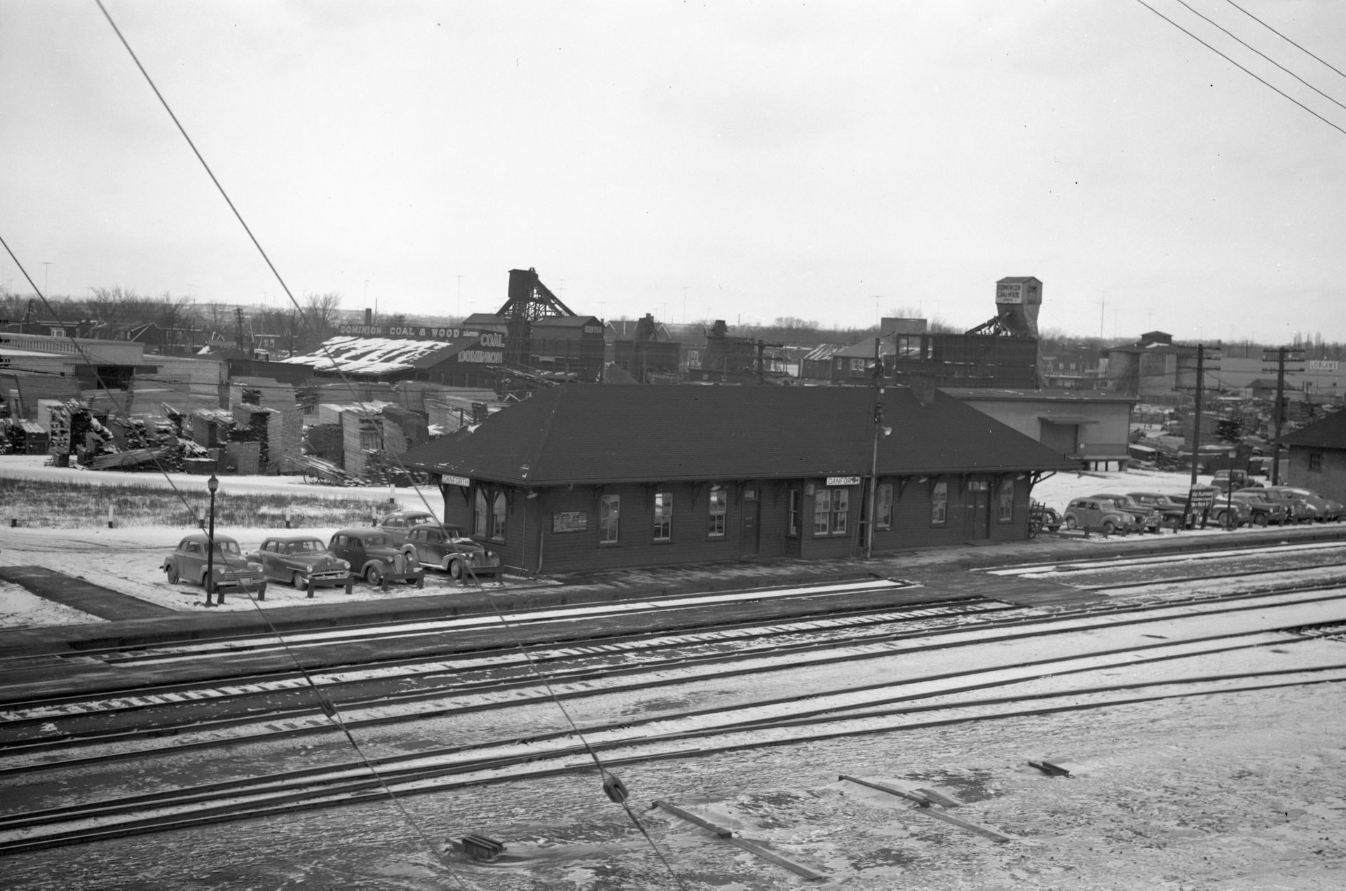 York Railway Station (G.T.R.), east side of Main Street, south of Danforth Avenue. Notes: Station became Danforth Railway Station, C.N.R. Shows Dominion Coal & Wood Ltd. yards, Danforth Ave., in background. See also TORONTO/RAILWAY STATIONS/DANFORTH RAILWAY STATION Date Created year and month accurate; day unknown for 1953 Jan Rights and Licenses: Public Domain